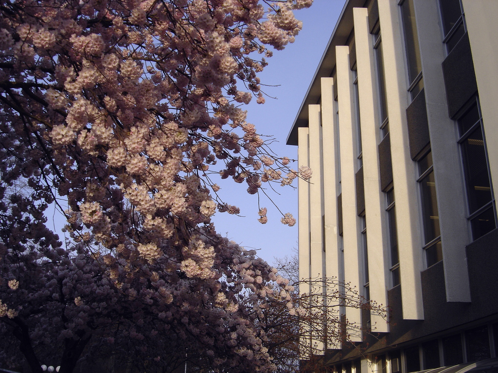 A treefull of blossoms almost obscures the sky beside the McPherson Library. Taken just before 8 a.m.